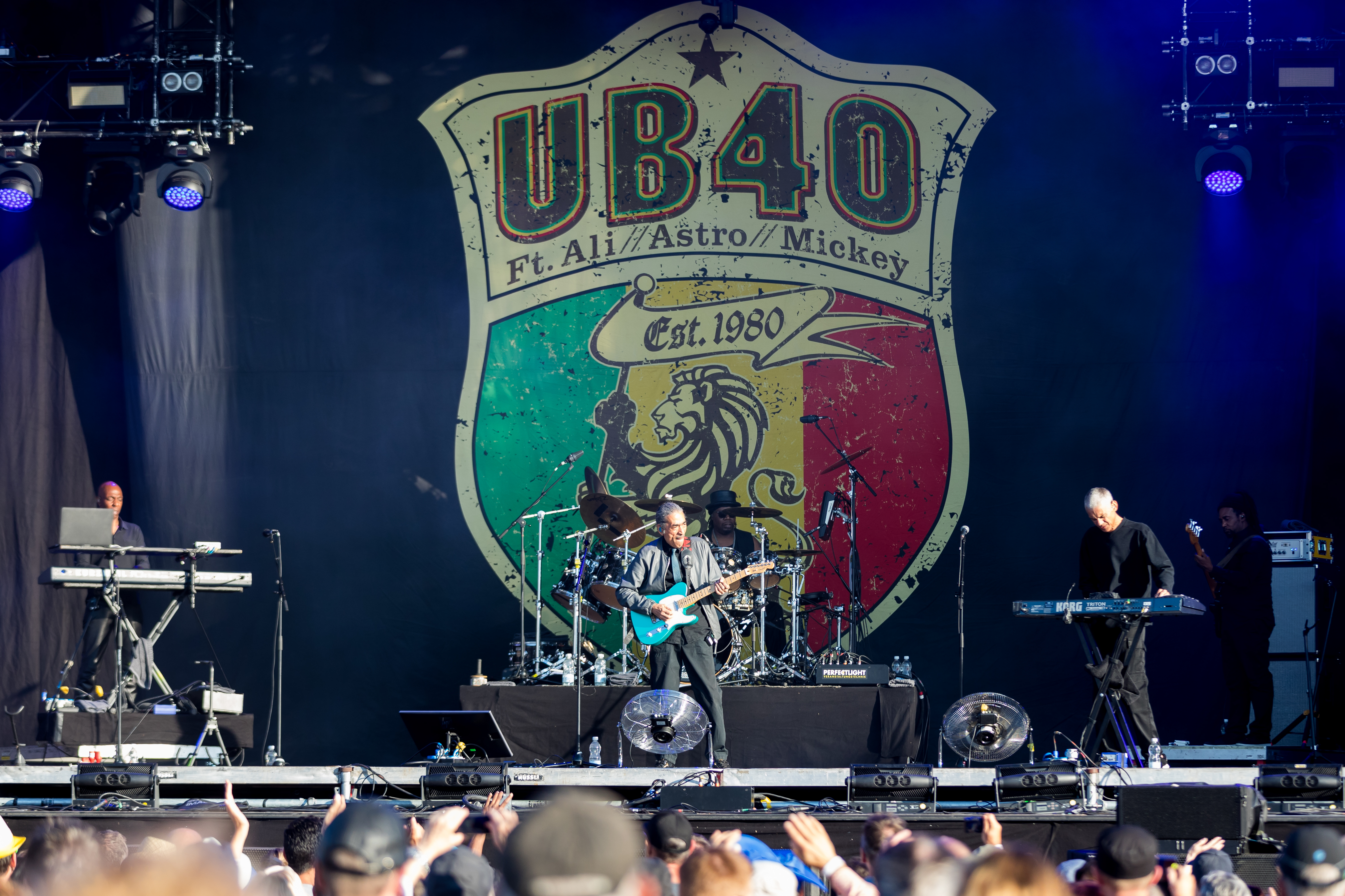 UB40 feat. Ali Campbell, Astro & Mickey Virtue @ Rock the Ring 2018